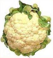 Cauliflower